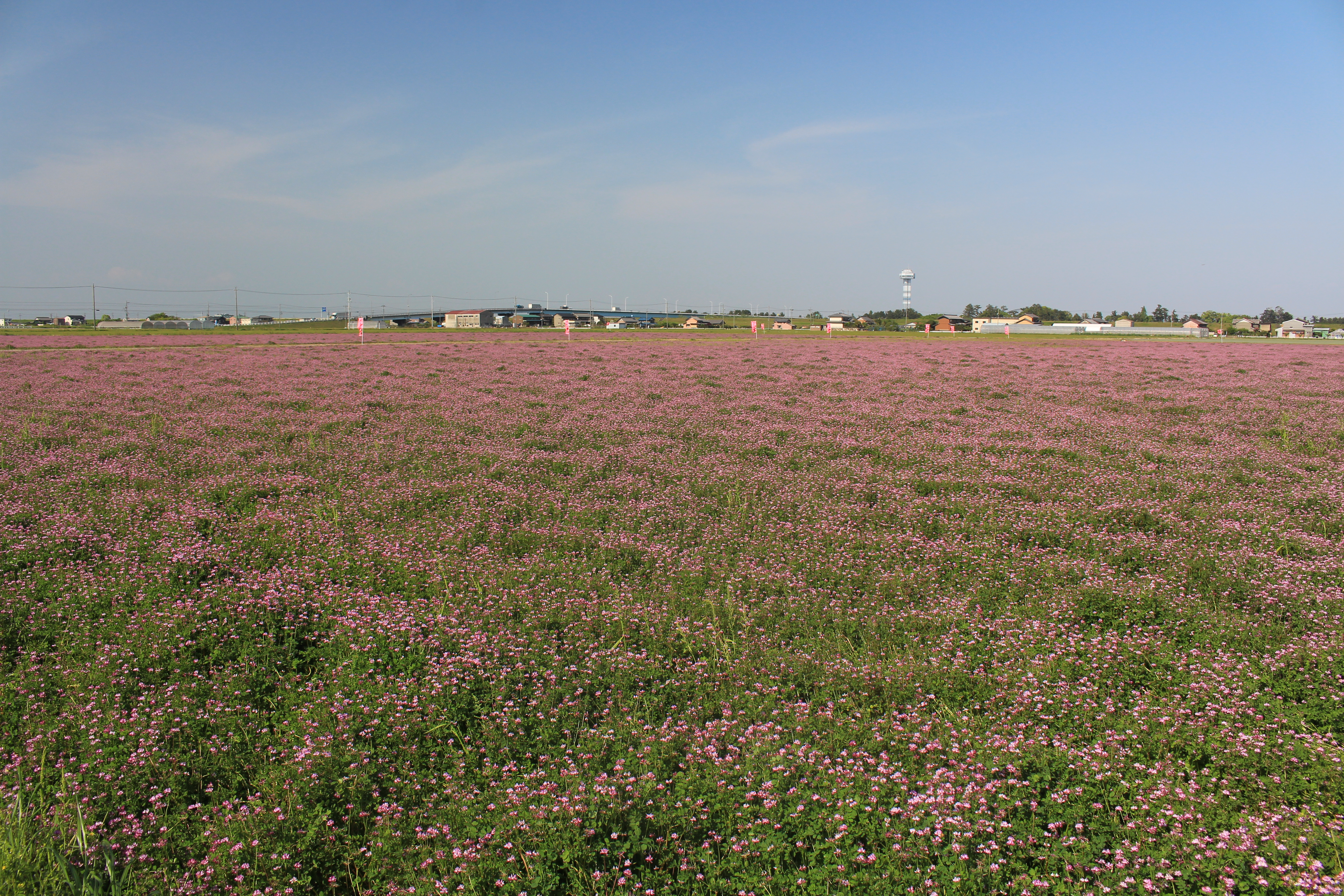 Field of Astragalus sinicus in Kuwana, Mie Prefecture, Japan.